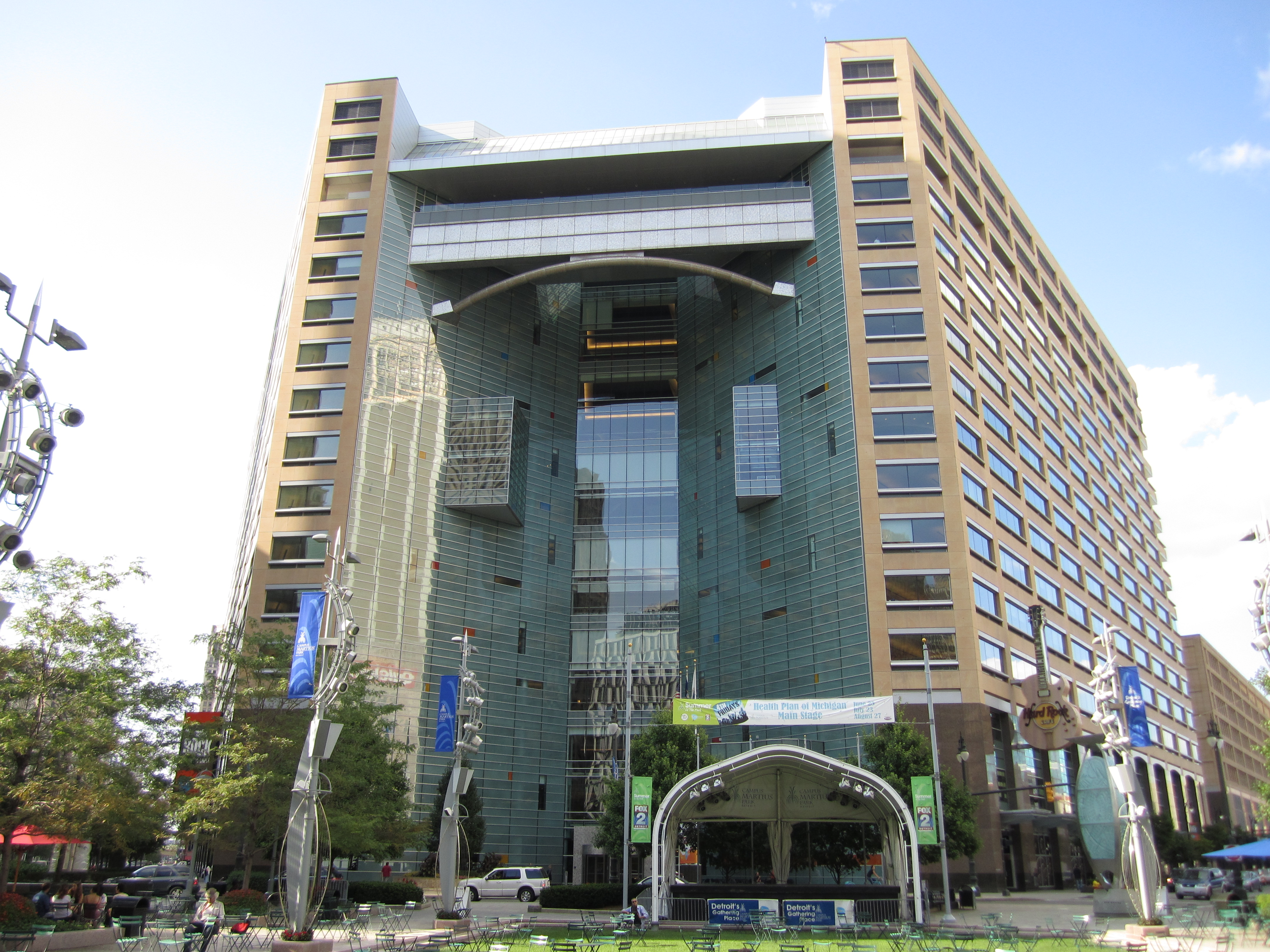 This is an updated photo of the Compuware Building from Campus Martius. It is a warm, clear-weather photo.